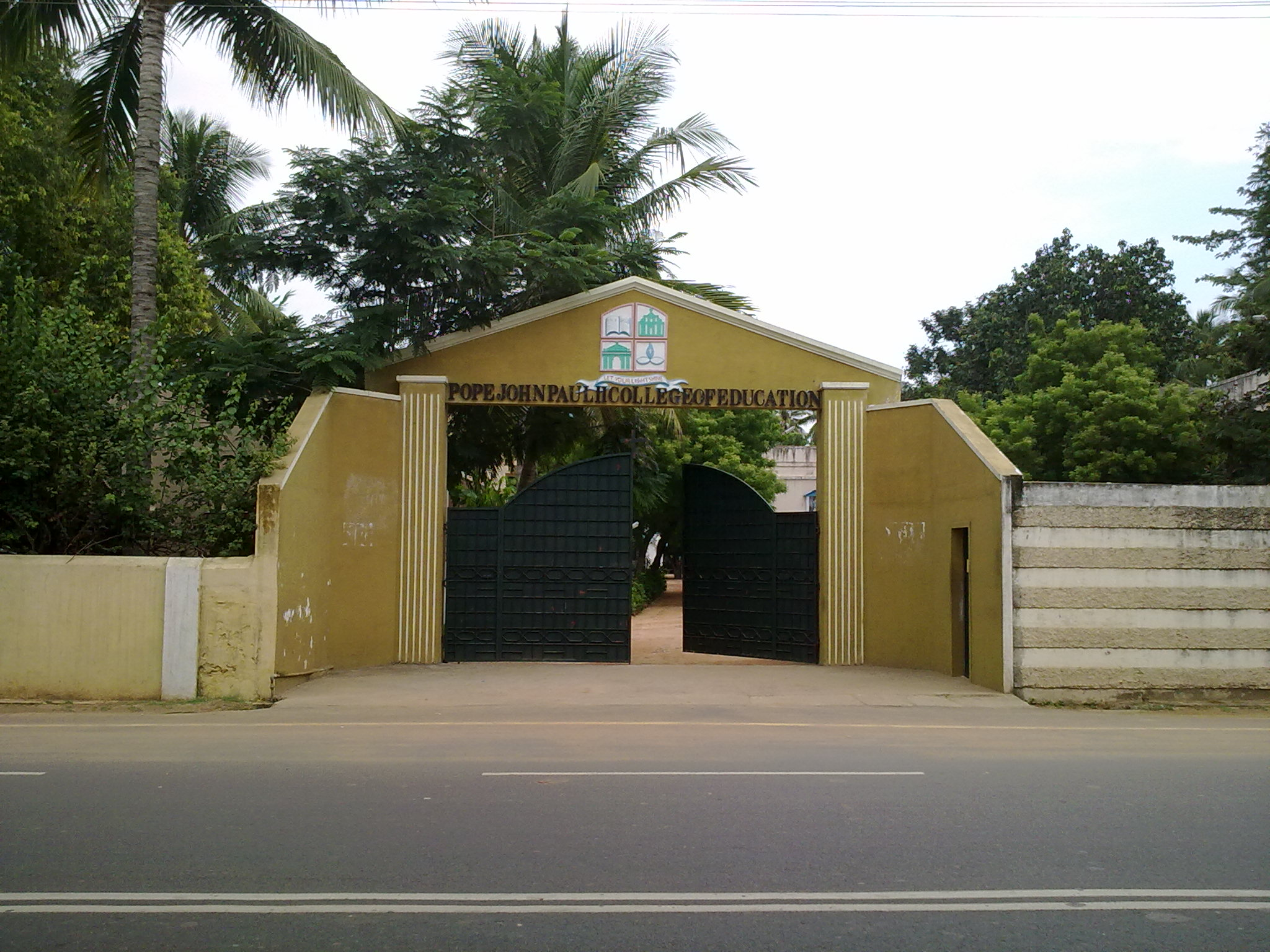 Pope John Paul II College of Education, Main Gate